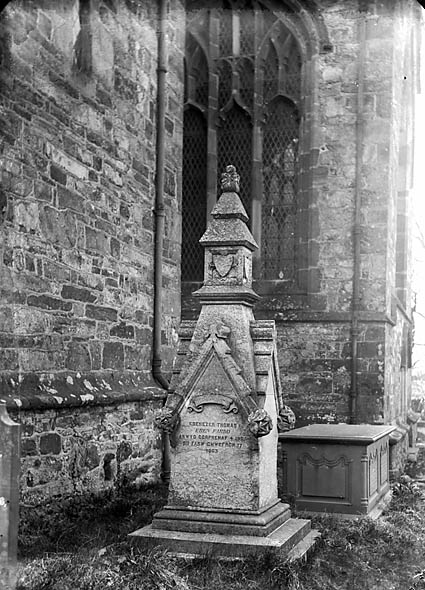 1 negative : glass, dry plate, b&w ; 16.5 x 12 cm.